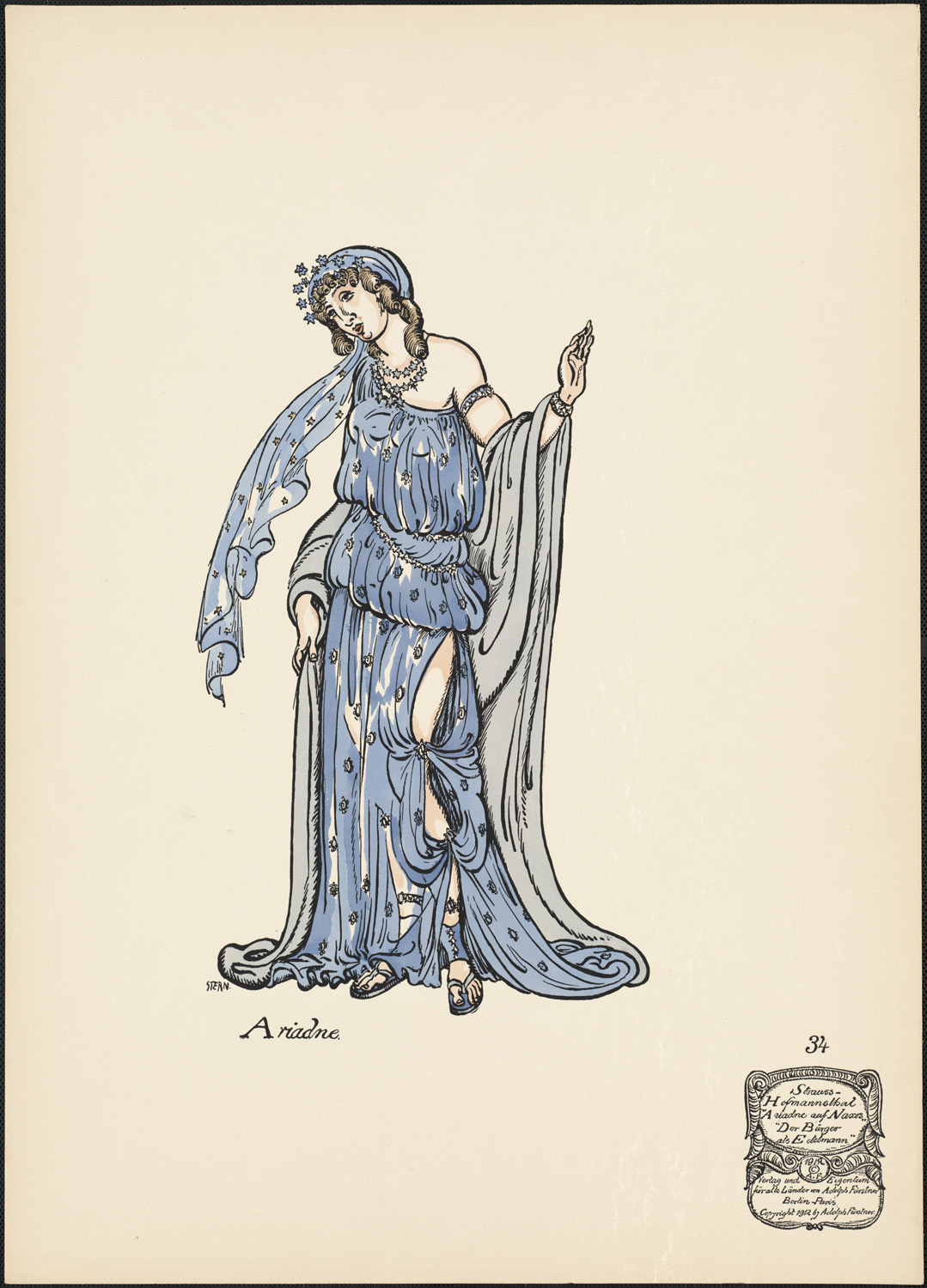 BPLDC no.: 09_07_000036 Page/Plate Number: Plate 34 Page/Plate Title: Ariadne Volume: Ariadne auf Naxos : Oper in einem Aufzuge von Hugo von Hofmannsthal ; Musik von Richard Strauss, zu spielen auf dem "Bürger aus Edelmann" des Molière ; Skizzen für die Kostüme und Dekorationen Call no.: Acc. 89-301 xxb Creator: Ernst Stern Description: [54] leaves : col. ill. (some folded) ; 63.3 cm. Summary: Prints of costumes and sets for the original (1912) production of Richard Strauss's Ariadne auf Naxos. BPL Department: Rare Books Collection Flickr data on 2011-08-08: Camera: Sinar AG Sinarback 54 FW, Sinar m License: CC BY 2.0 User: Boston Public Library BPL